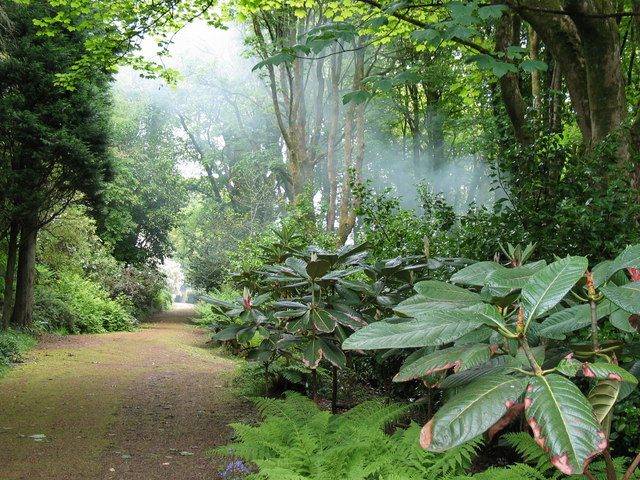 Achamore Garden, Gigha.